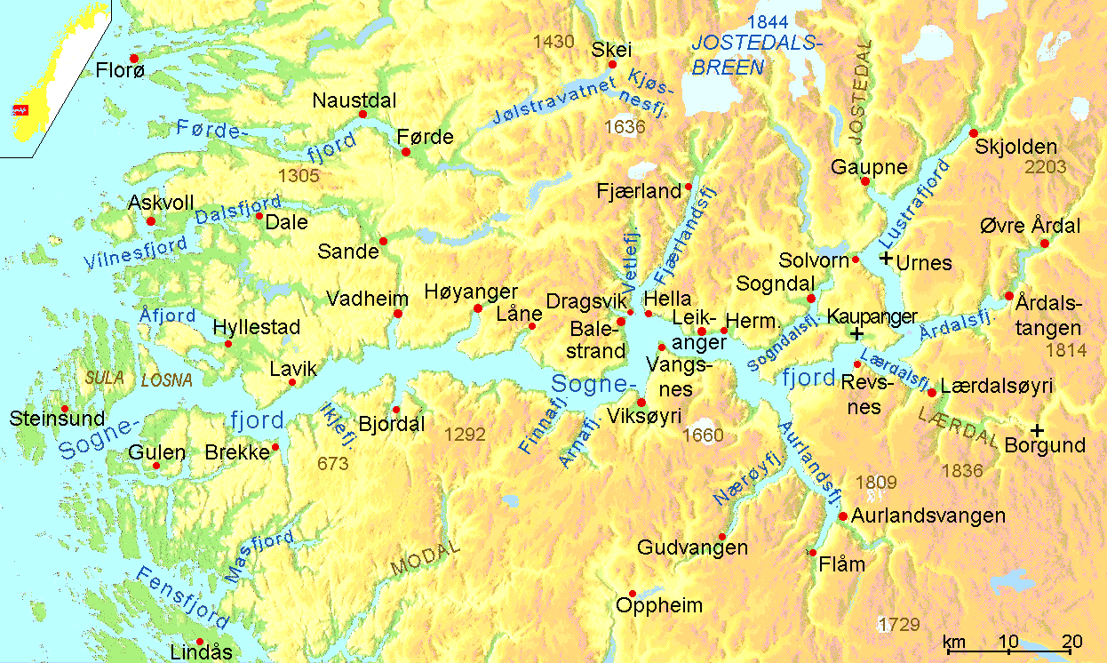 Physical map of the Sognefjord with localities and stavkirkjes